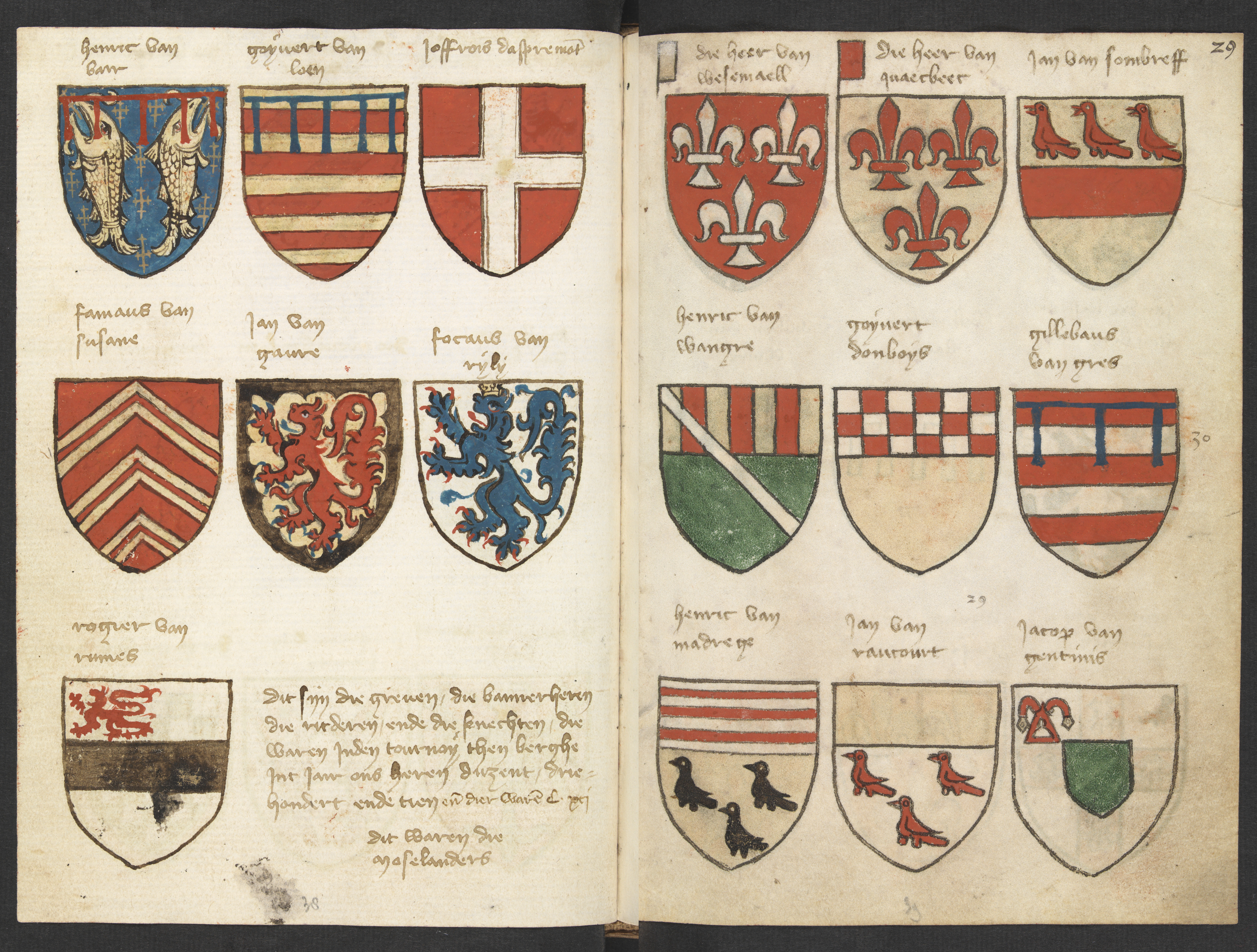 Lefthand side folio 028v; righthand side folio 029r from the Beyeren armorial / Wapenboek Beyeren